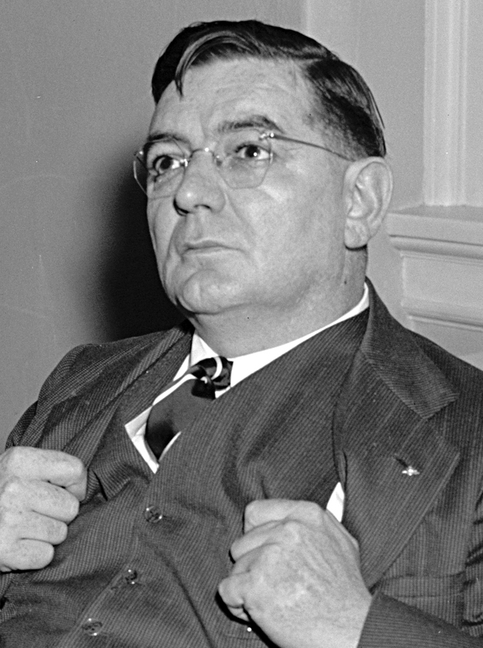 Charles L. Gerlach, US Representative from Pennsylvania